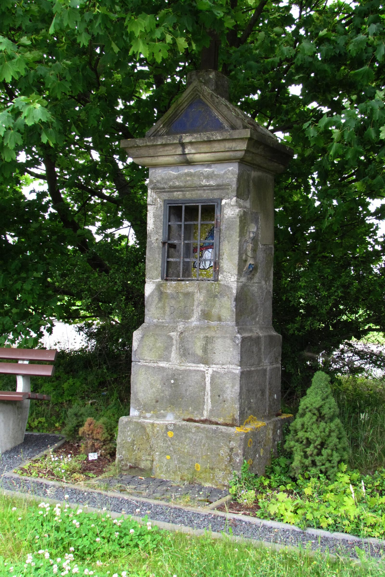 This is a photograph of an architectural monument.It is on the list of cultural monuments of Korschenbroich